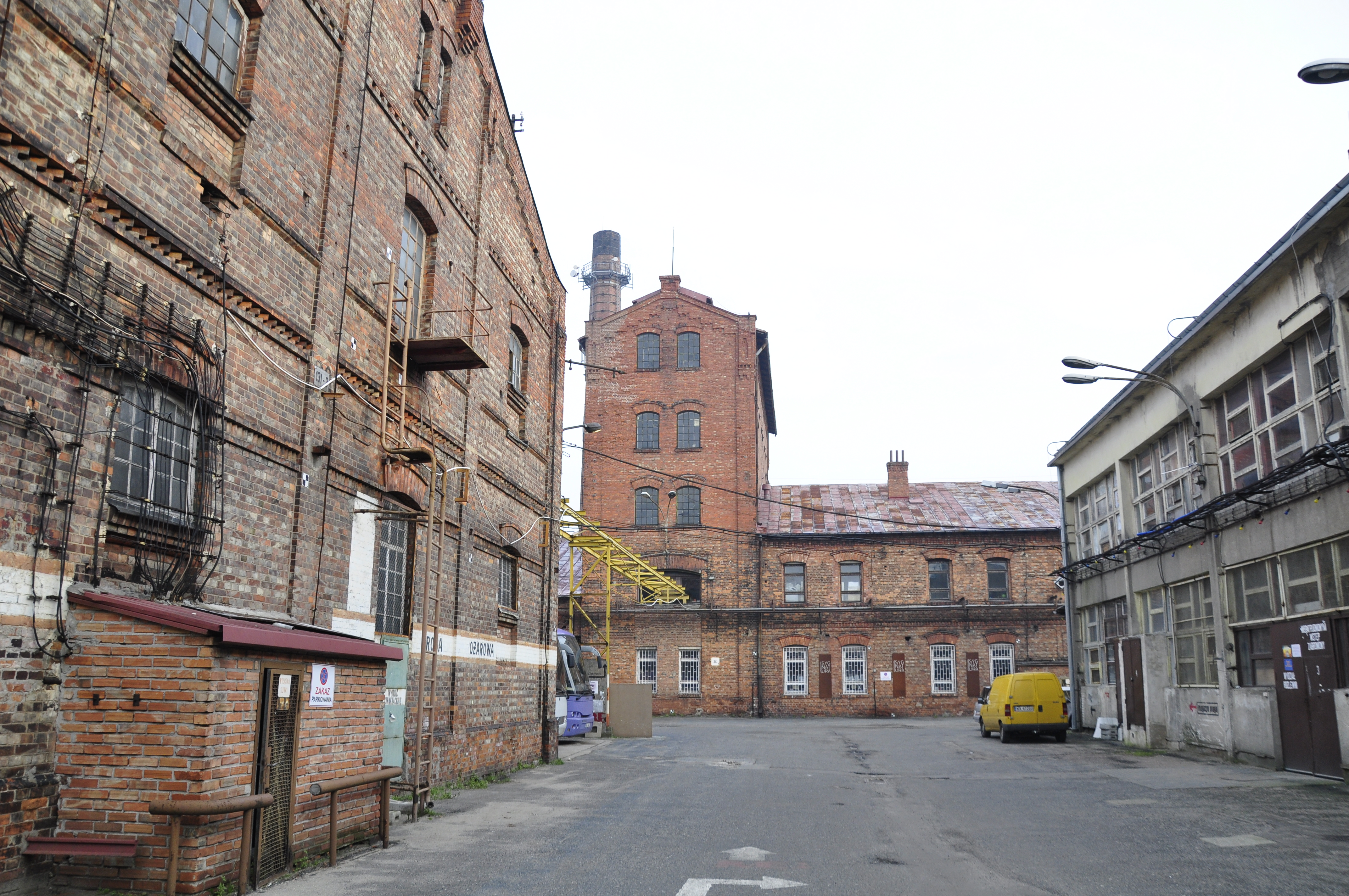 Koneser Vodka Factory